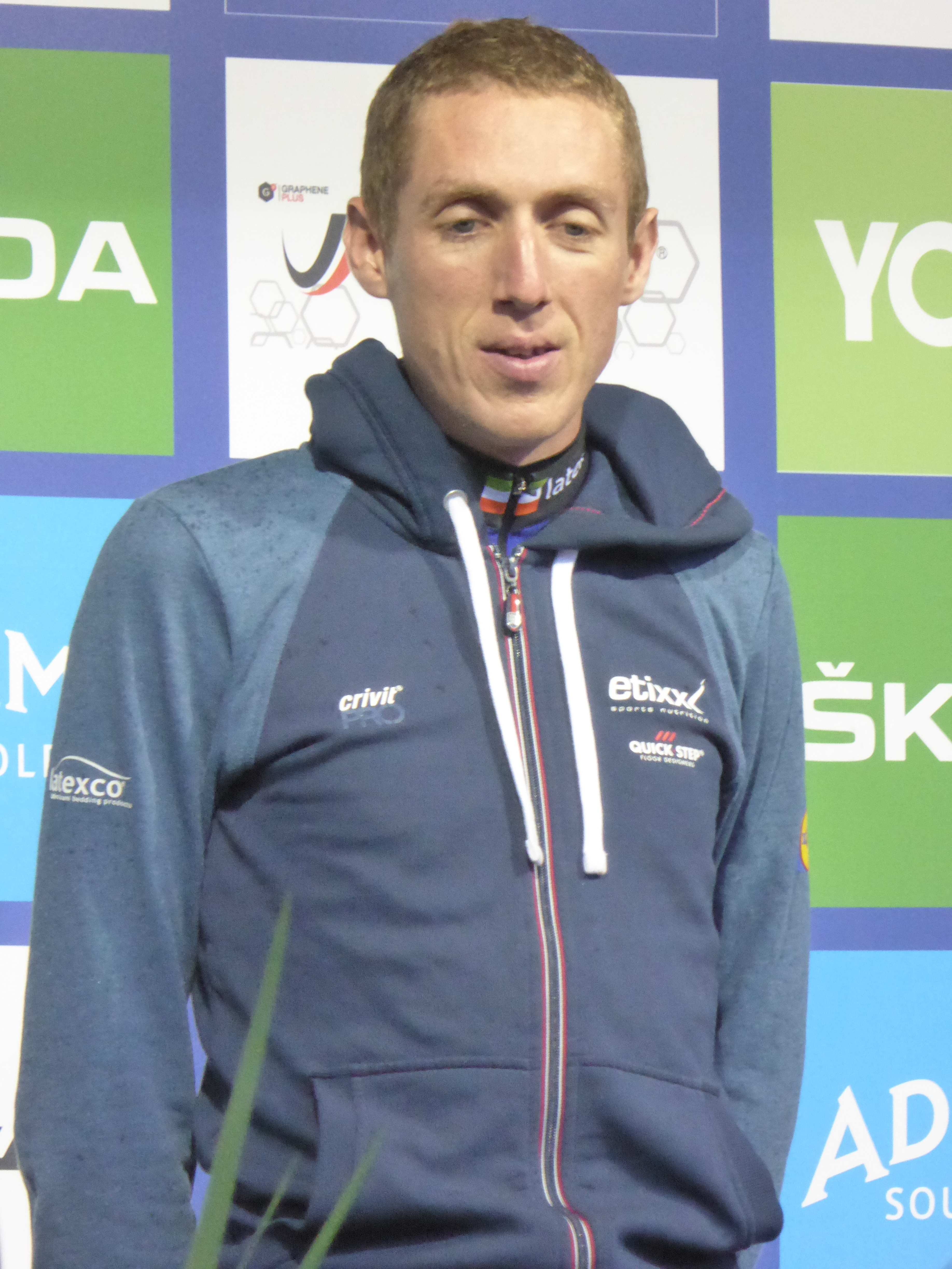 Dan Martin (Etixx-Quick Step), pictured at the 2016 Tour of Britain team presentation in Glasgow on 3 September 2016.